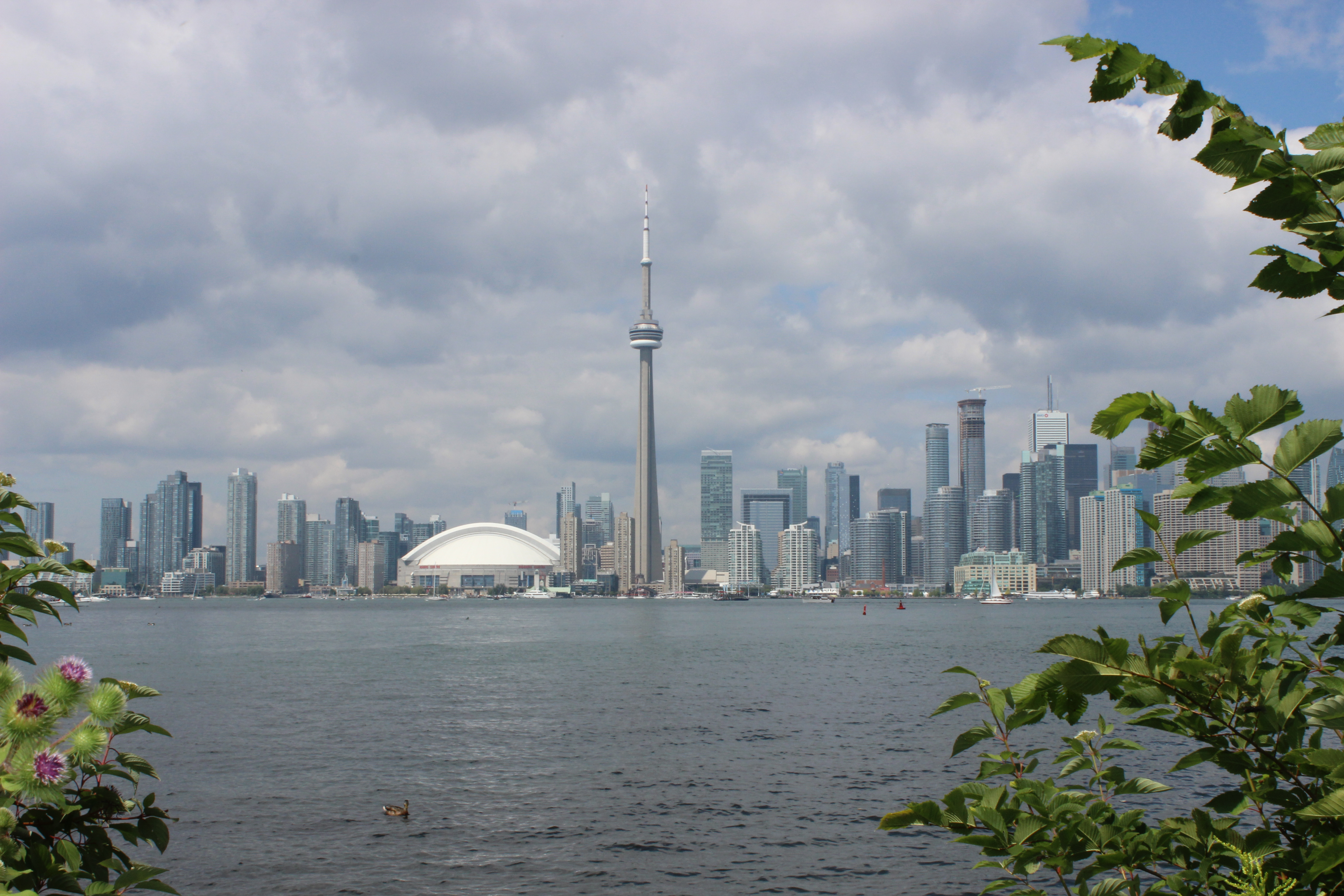 City of Toronto photographed from Centre Island